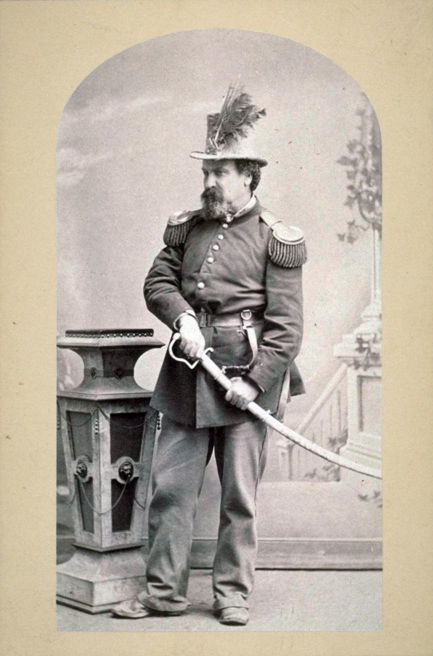 Joshua A. Norton (1819-1880), self-proclaimed Emperor of the United States and Protector of Mexico.